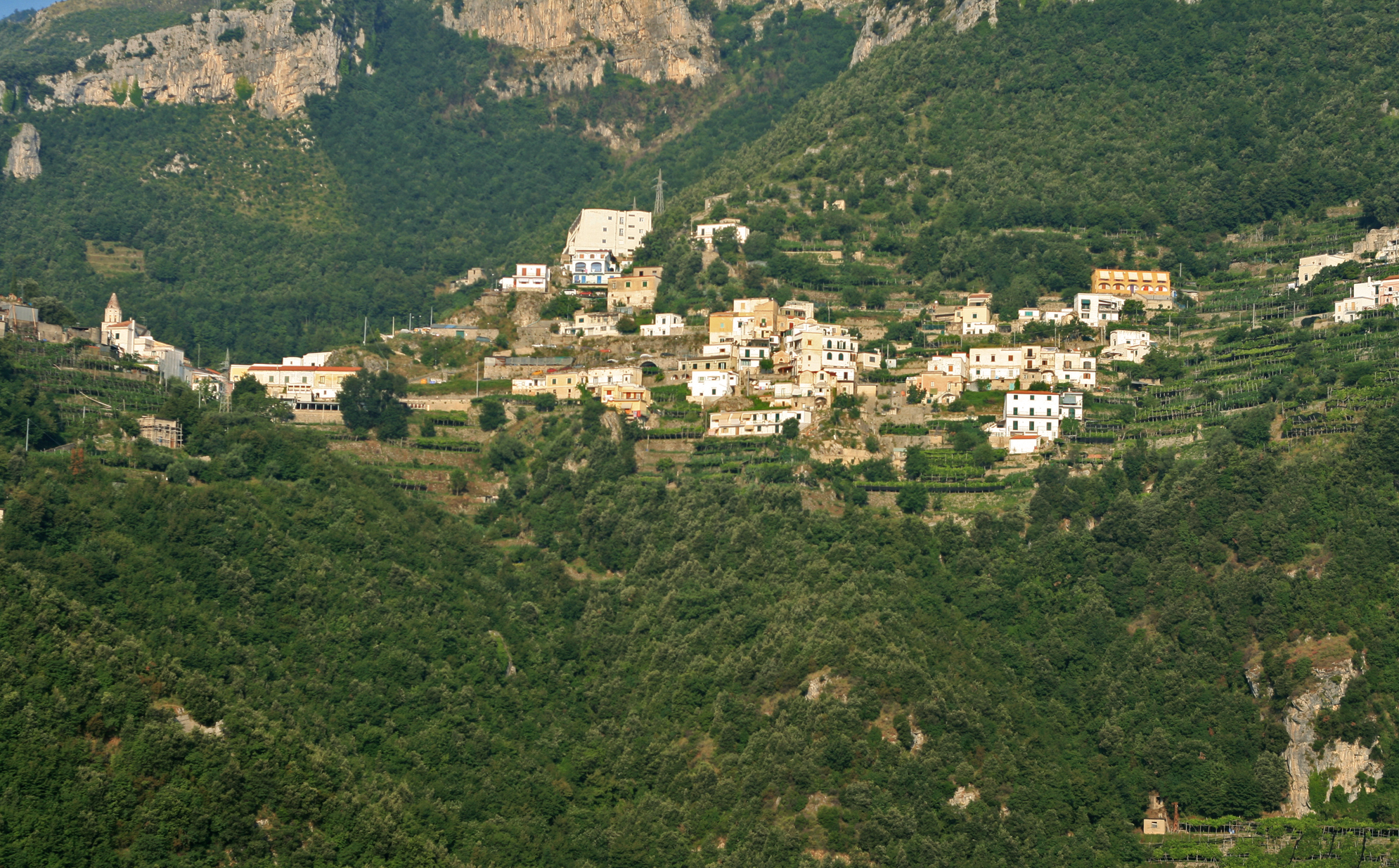 Pogerola, Amalfi, Italy.